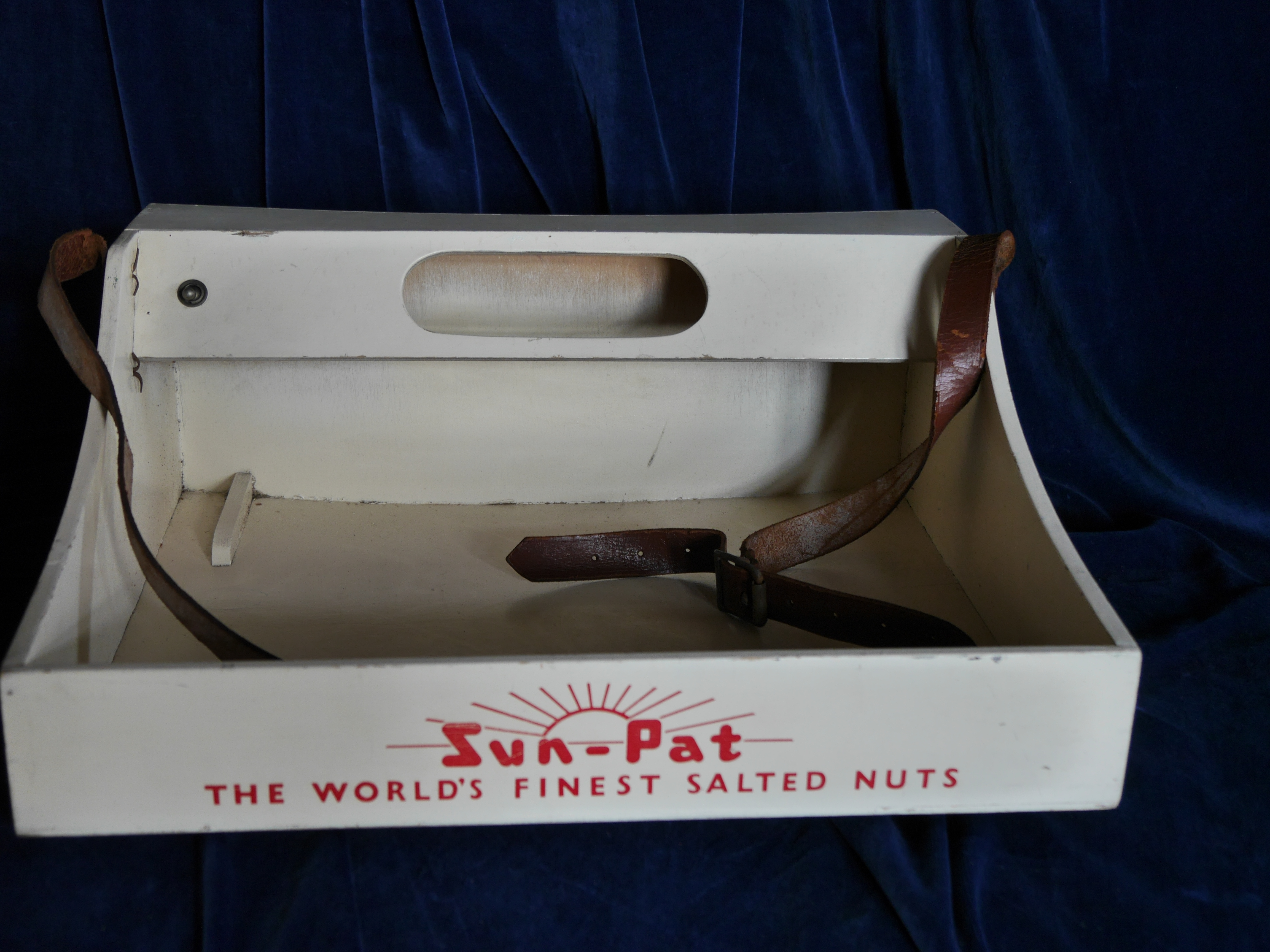 Cinema Museum, London object